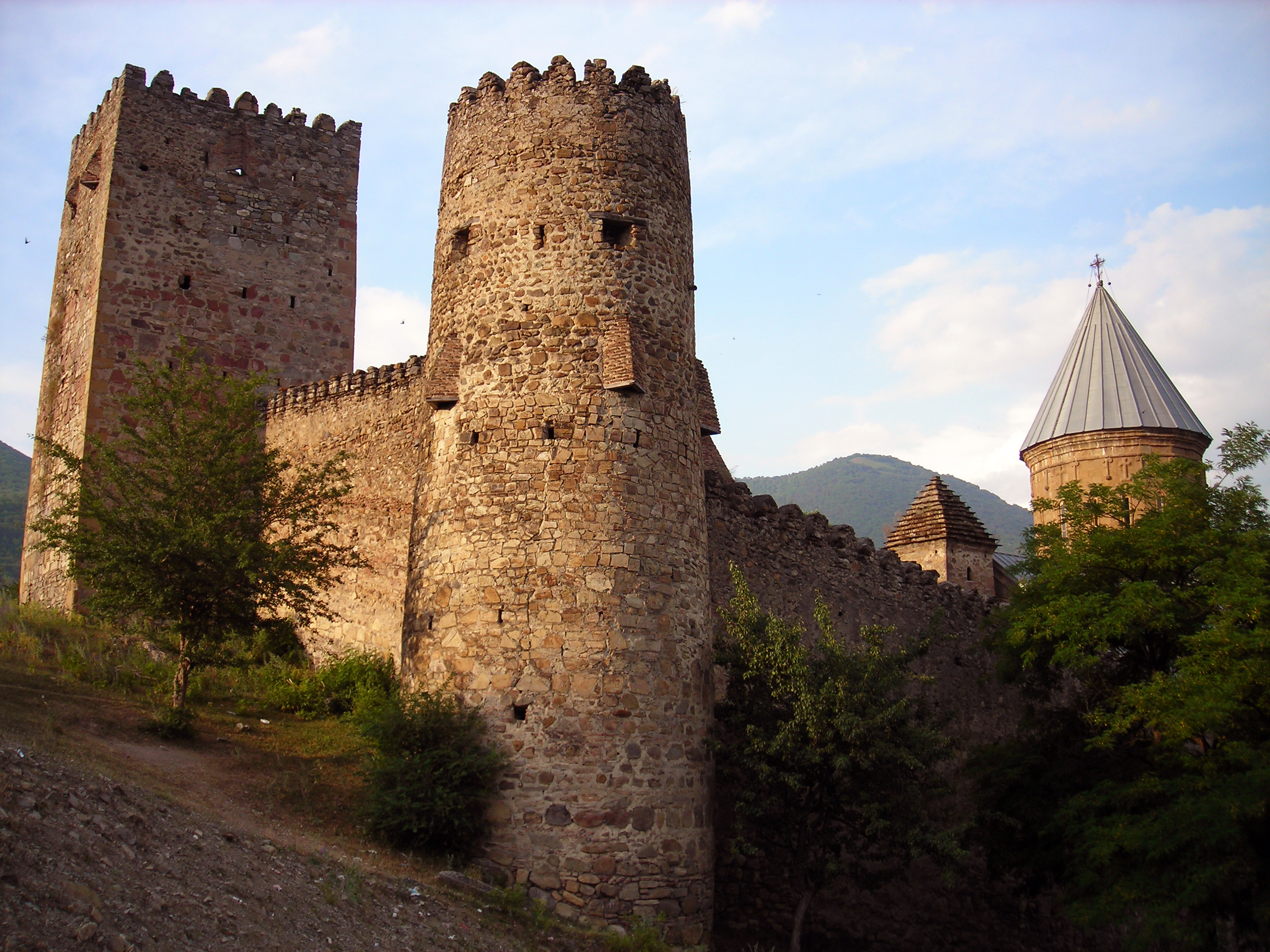 Ananuri. I guess this church was built to deter casual visitors. Nice stop on the Georgian Military Highway between Kazbegi and Tbilisi See where this picture was taken.